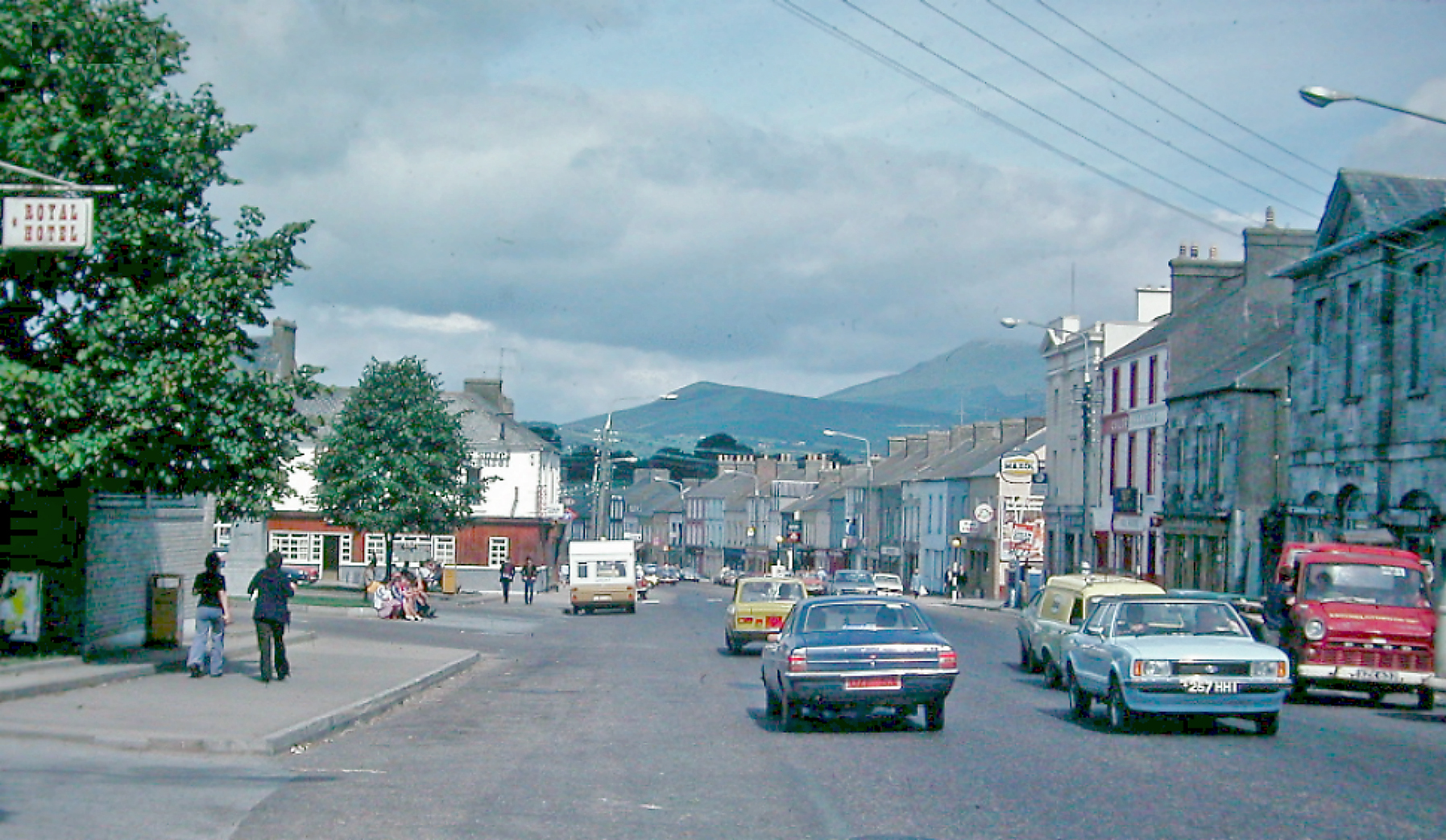 Downtown Mitchelstown, 1978. View northward, in Cork Street. Ahead is Baurnagurraly (2,579 ft.) and behind it touching clouds is Dawson's Table (3,015 ft.).